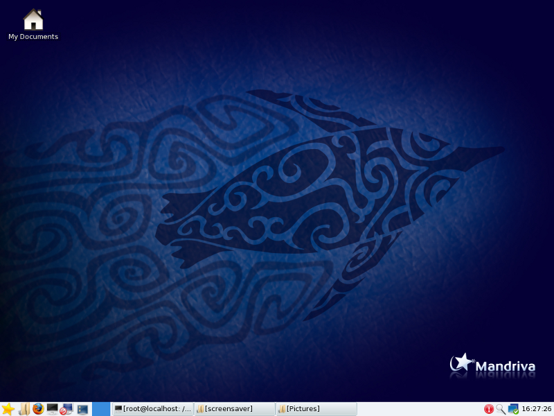 lxde dualcharch